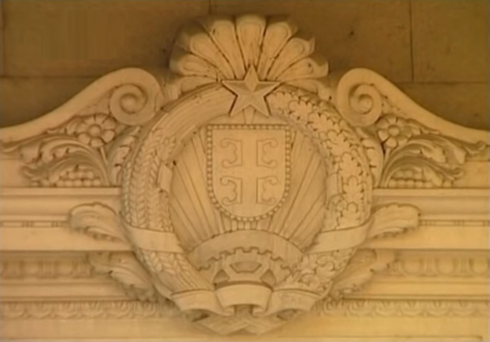 Coat of arms of the Socialist Republic of Serbia, above the front door the residence of the President of the Republic of Serbia Српски (ћирилица): Грб Социјалистичлке Републике Србије, изнад улазних врата резиденције председника Републике Србије Srpski (latinica): Grb Socijalističlke Republike Srbije, iznad ulaznih vrata rezidencije predsednika Republike Srbije